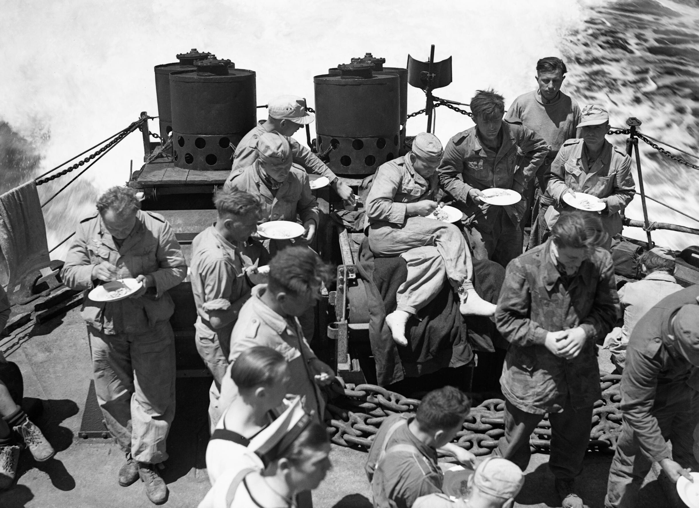 German POWs aboard HMS JERVIS off Tunisia, May 1943. A flotilla of Germans fleeing from the 1st and 8th Armies, found nearly twenty miles out to sea off Cape Bon, Tunisia, were rounded up by the Royal Navy. After weeks of iron rations these German prisoners were glad of good food given to them in the destroyer HMS JERVIS. All the prisoners are German and all except two are anti-aircraft gunners who were bombed out of their gun sites.